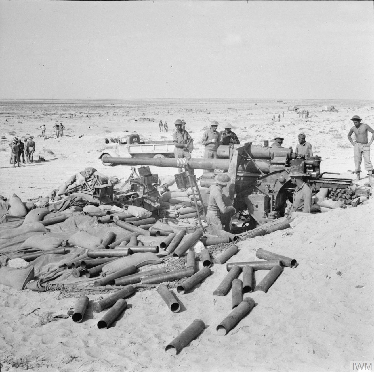 The British Army in North Africa 1942 A German 88mm gun abandoned near the coast road, west of El Alamein, 7 November 1942.